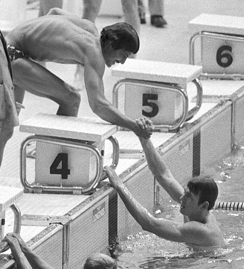 1972 Press Photo Mark Spitz wins Olympic 400 meter swim, Munich, Germany